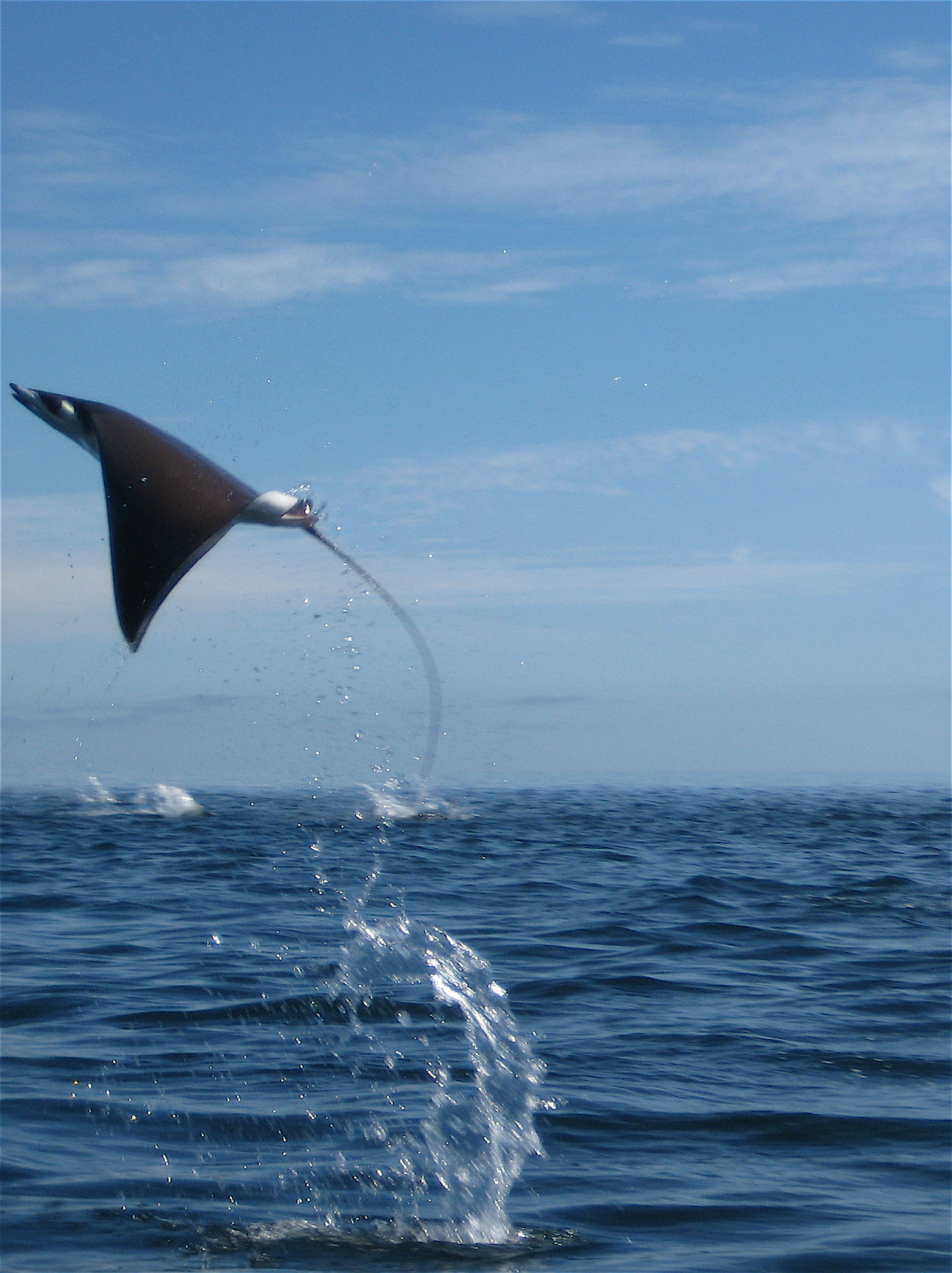 Loud and huge. And jumping. High.